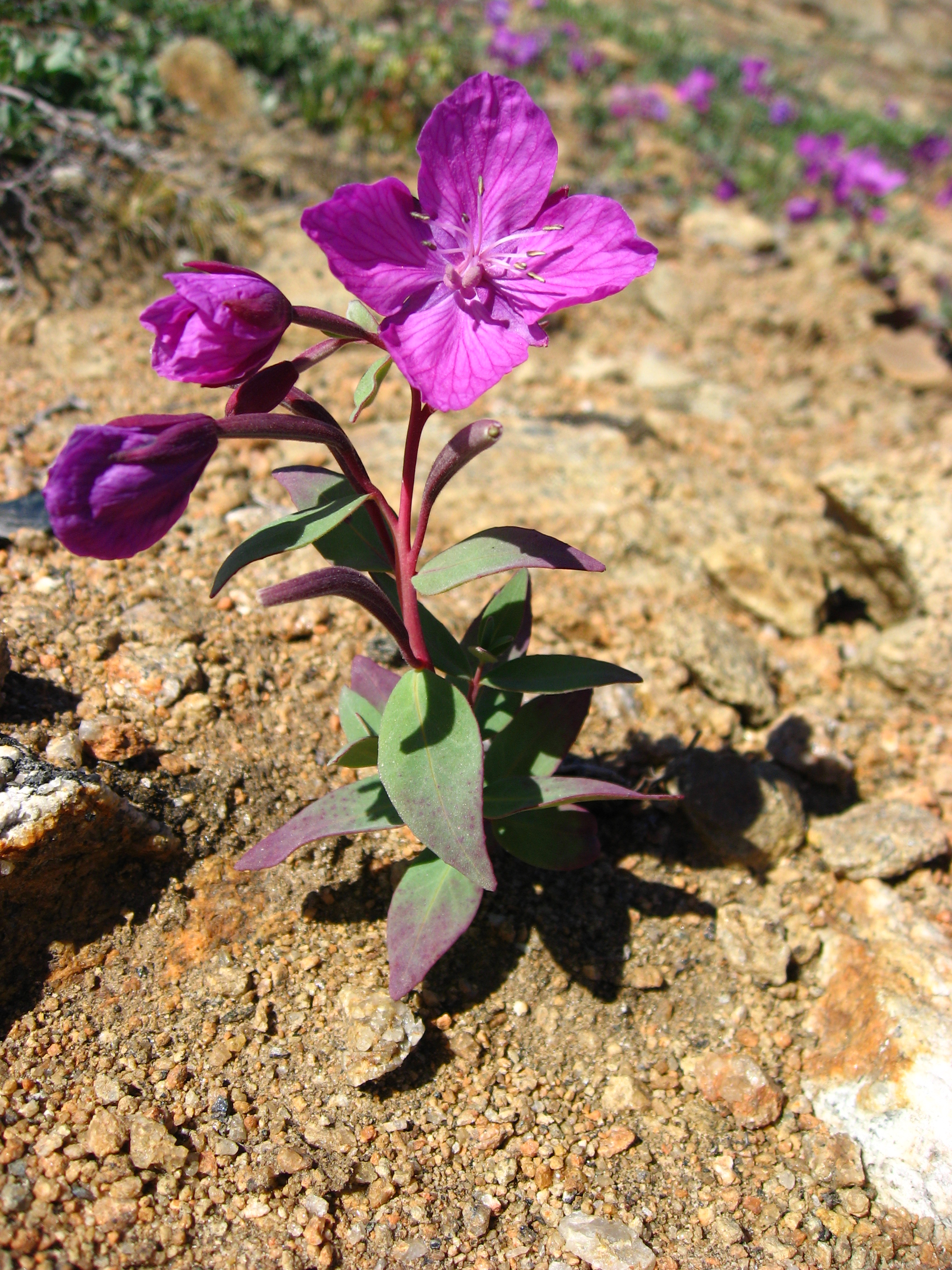 Dwarf fireweed (Chamerion latifolium) photographed a little north-east of the cemetary in Upernavik, Greenland. This flower is the national flower of Greenland and it is called niviarsiak in Greenlandic, which means something like "little girl".